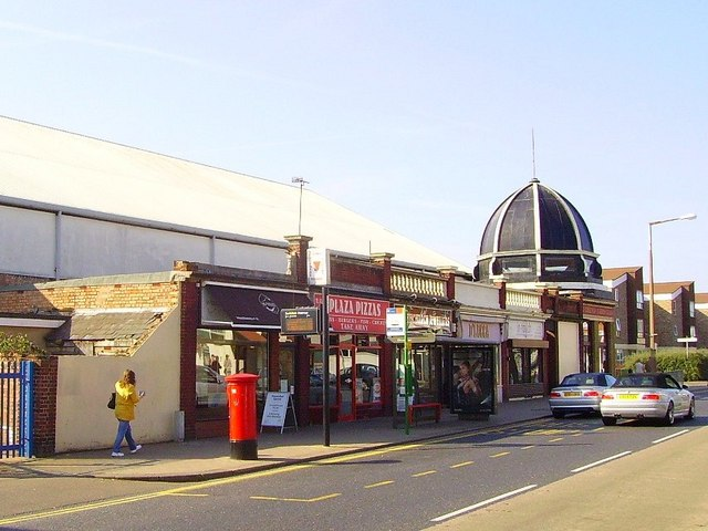 The old Plaza Cinema, Southchurch Road The dome of the old Plaza Cinema, Southchurch Road, looking south-west.